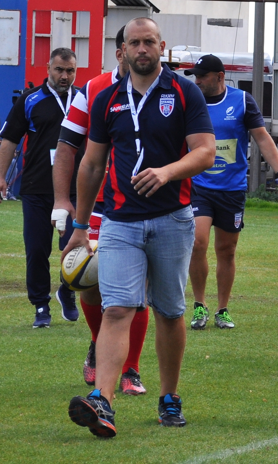 Romanian former rugby union international Dănuț Dumbravă, head coach of CSA Steaua București rugby club seen before a match against CSM Baia Mare in Round 5 of Romanian Rugby SuperLiga in September 2017